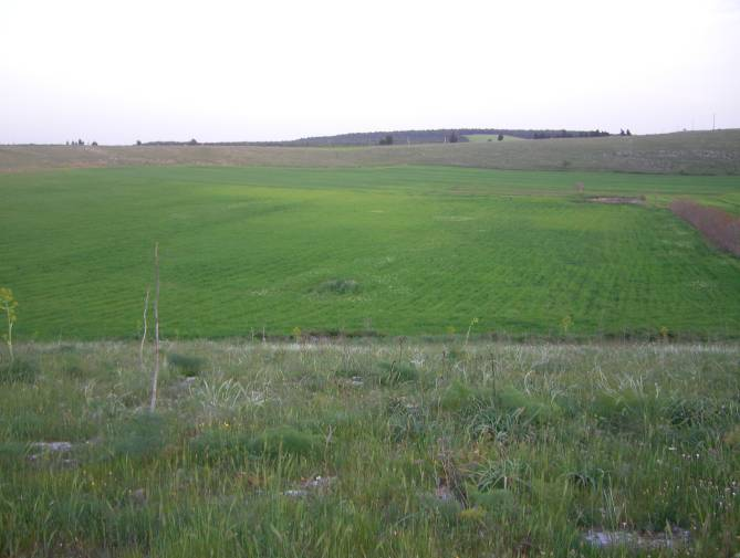 Gurio Lamanna - Sinkhole caused by karst processes located in Gravina in Puglia (Italy)